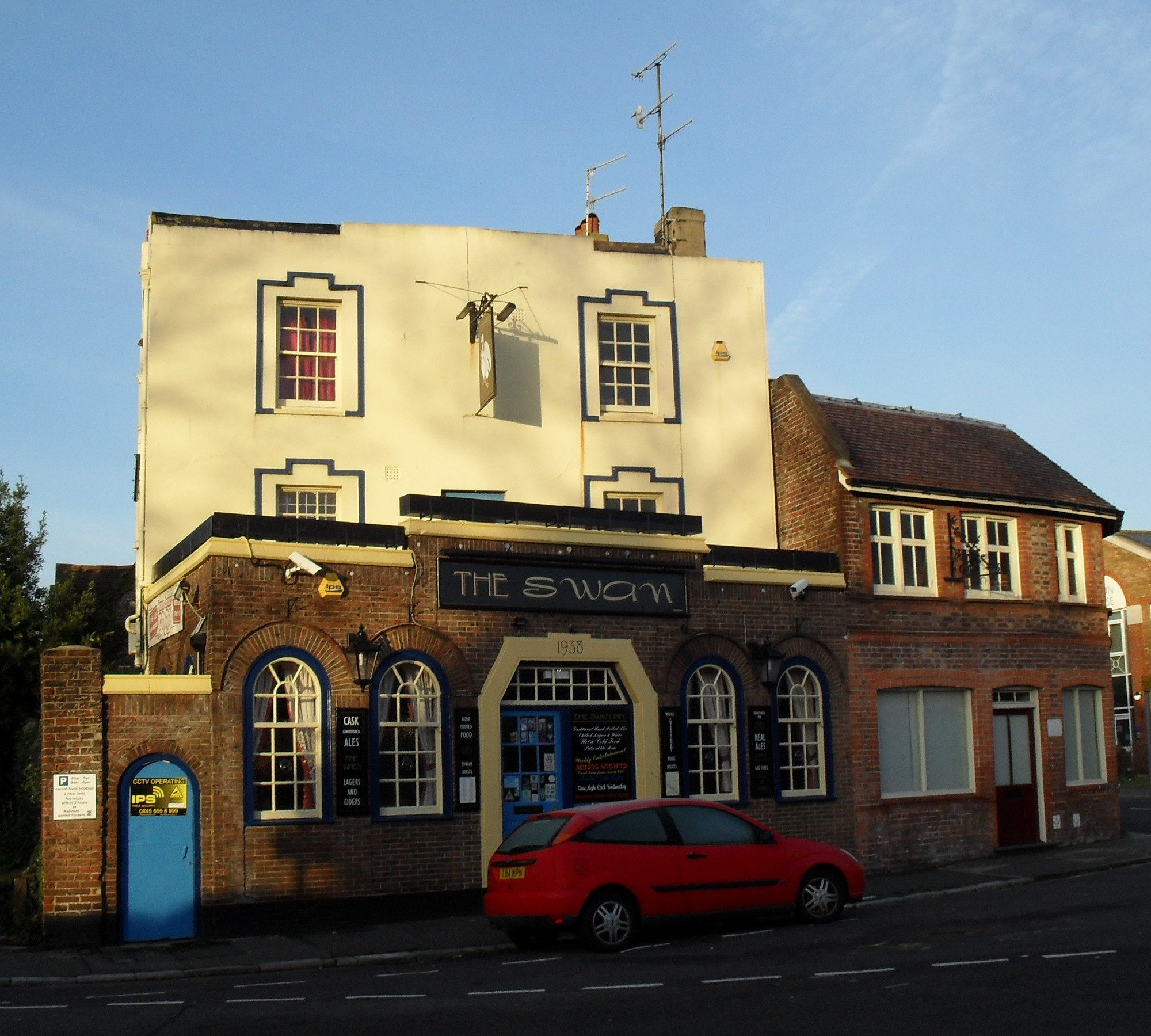 The Swan Inn, High Street, Worthing, West Sussex, England. The oldest part of the building is late 18th-century. It was originally a private house. Listed at Grade II by English Heritage (IoE Code 432605)